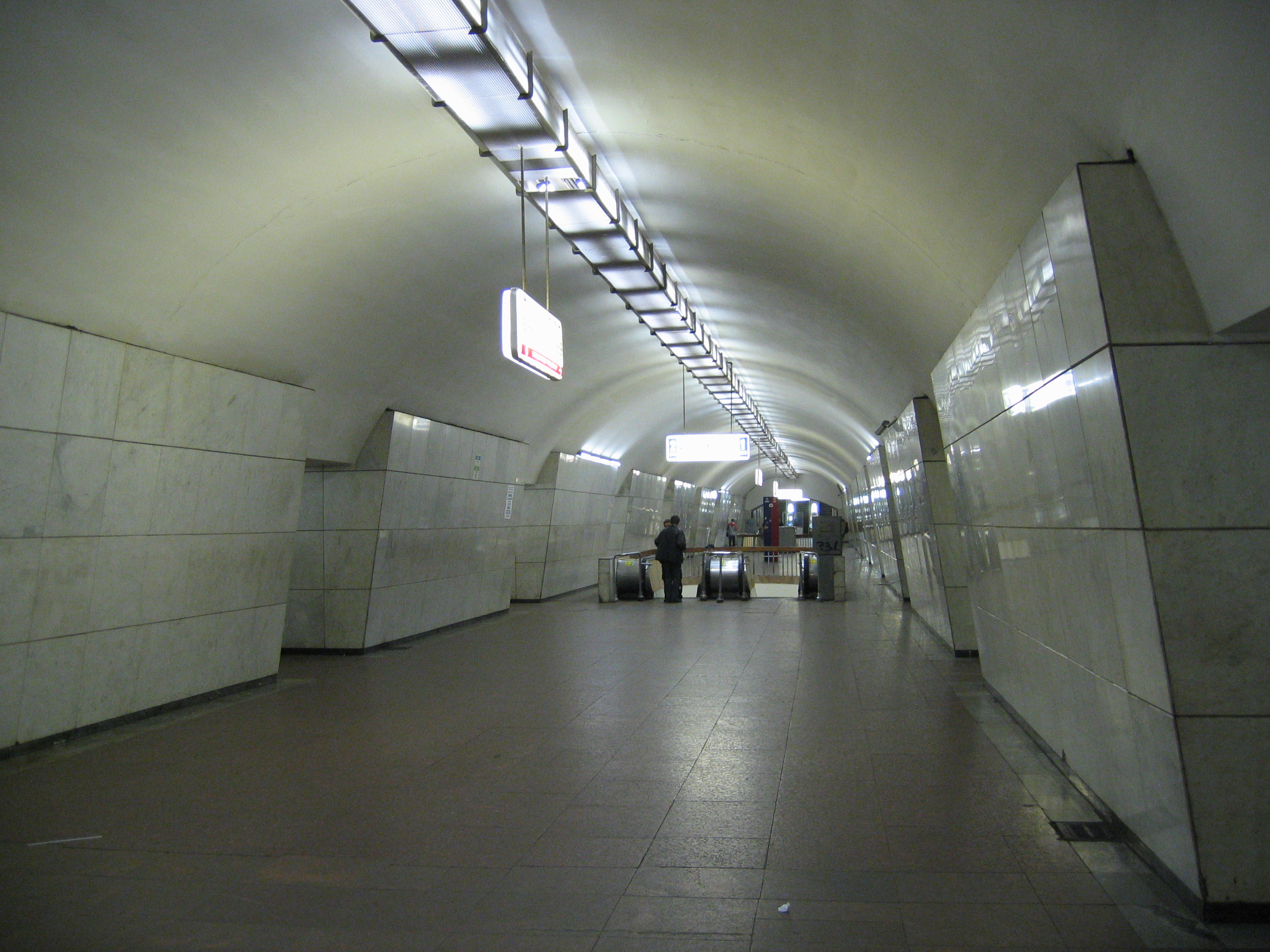 Lubyanka station of Moscow Metro